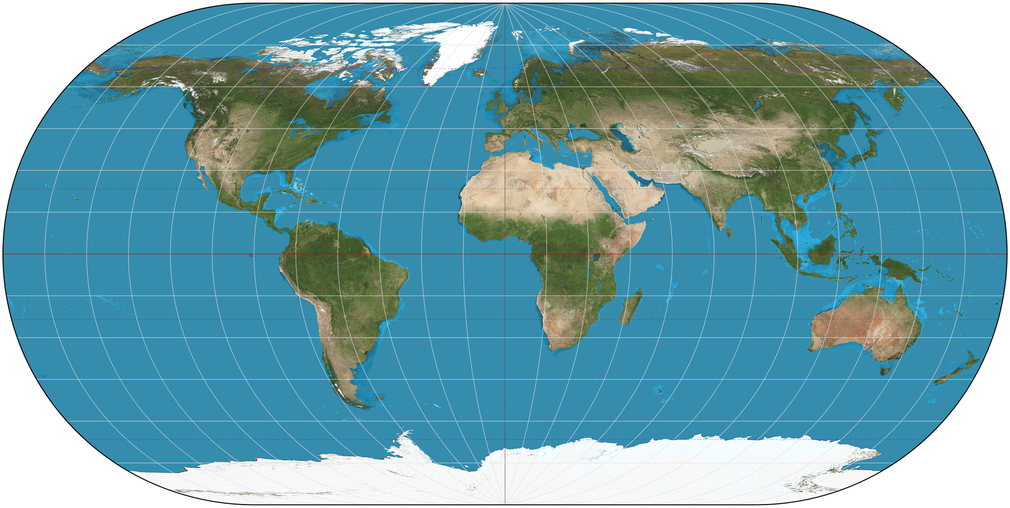 The world on the Ortelius oval projection. 15° graticule. Imagery is a derivative of NASA’s Blue Marble summer month composite with oceans lightened to enhance legibility and contrast. Image created with the Geocart map projection software.